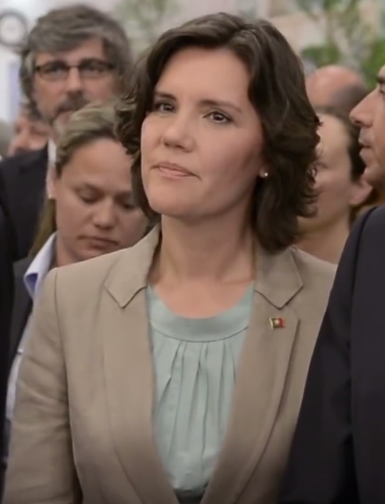 Portuguese Minister of Agriculture Assunção Cristas in the 52th National Agriculture Fair (6 June 2015).